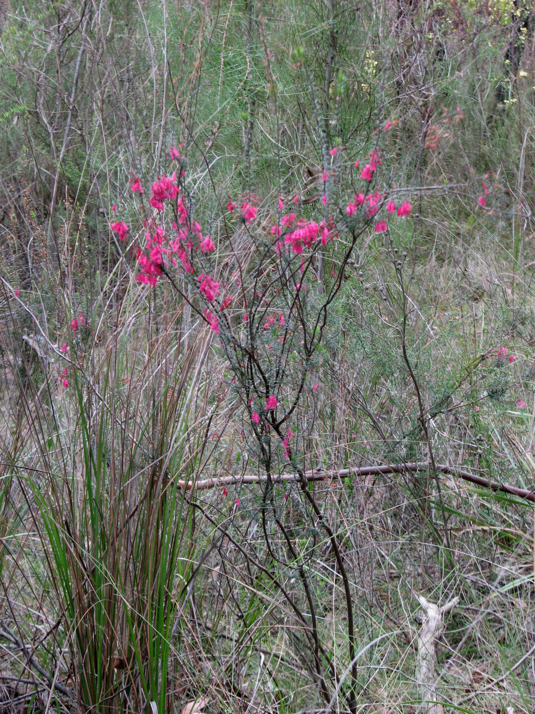 Epacris impressa, Belgrave South, Victoria, Australia